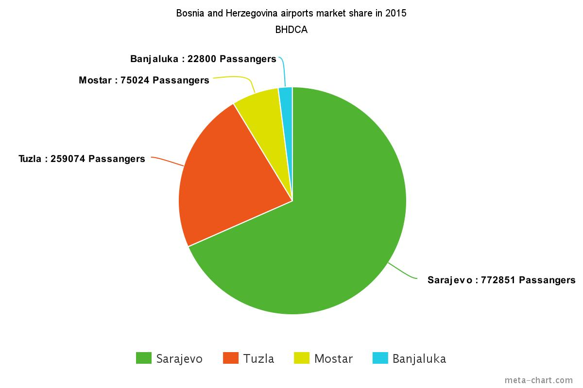 Bosnia and Herzegovina airports market share